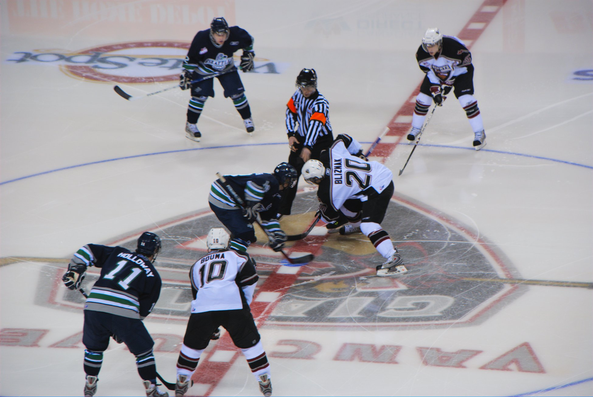 The first face-off of the WHL game Seattle Thunderbirds vs. Vancouver Giants, the Giants won 6-1